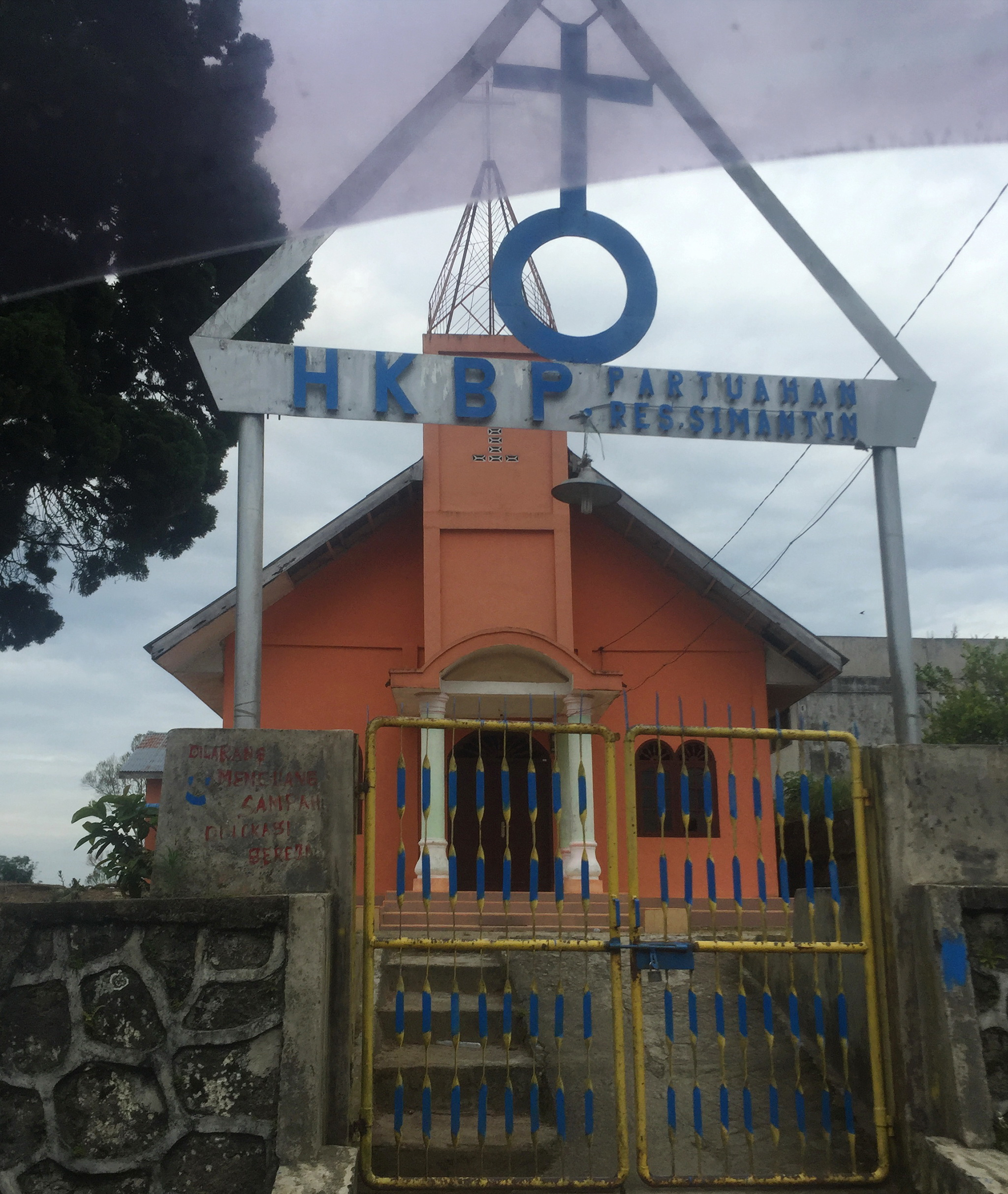 HKBP Partuahan, church in Partuahan, Dolog Masagal, Simalungun